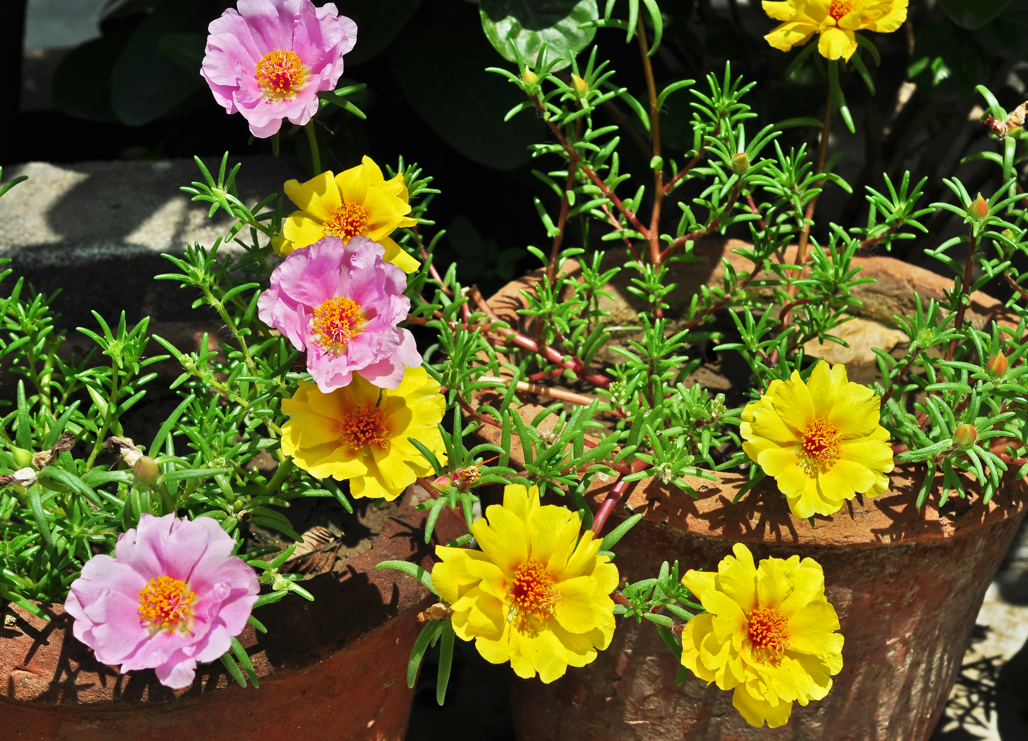 Pink and yellow Moss-rose, Portulaca grandiflora. Photographed at Burdwan, West Bengal, India.